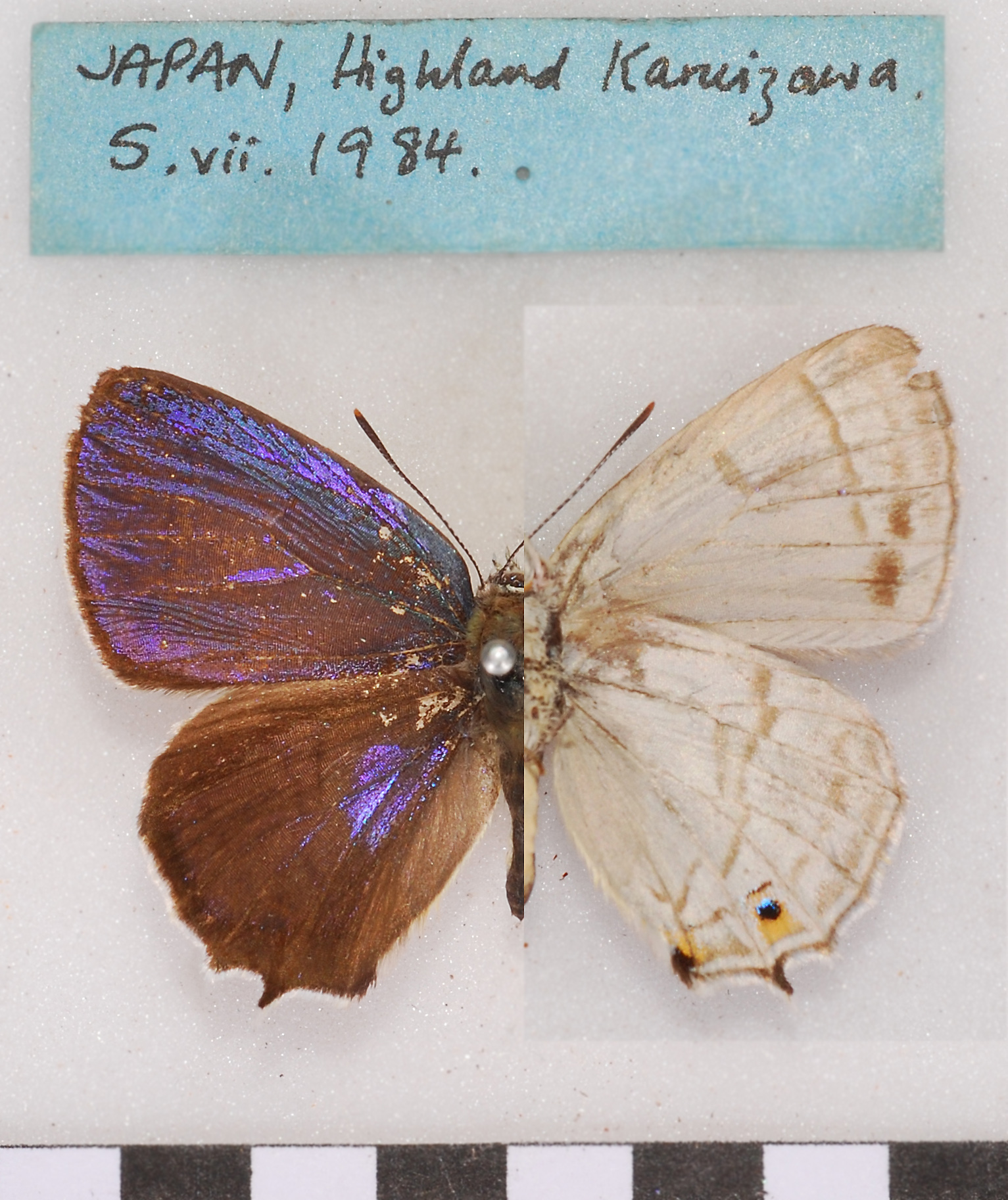 Favonius saphirinus, male, set specimen, Japan, Alan Cassidy photo.